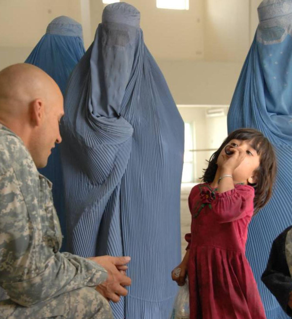 Coalition service member hands out medicine to Afghan children as part of a MEDCAP (Medical Civic Assistance Program) in the Khowst province on June 21, 2007. This is helpful for the men, women and children who need medical treatment. (U.S. Army photo by Sergeant First Class Michael Carter)